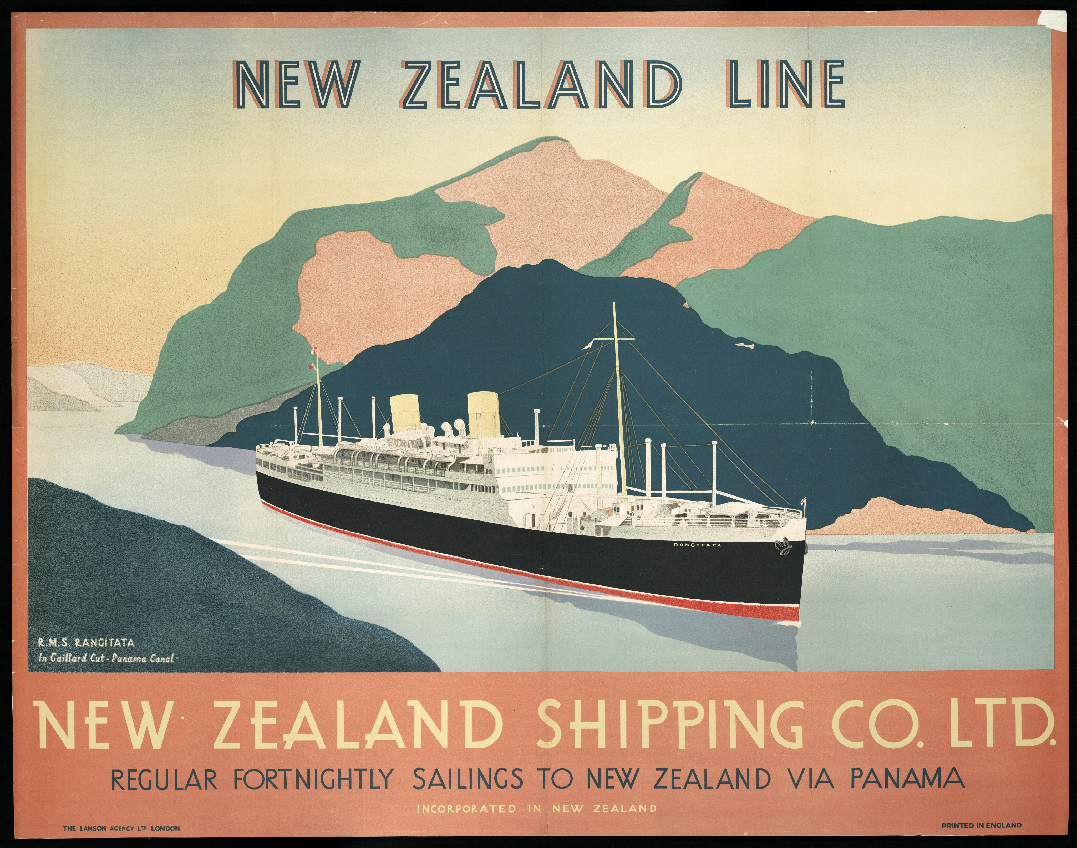 New Zealand Shipping Company Ltd, New Zealand line. R.M.S. Rangitata in Gaillard Cut, 1930s, Screenprint, 980 x 1253 mm, Printed Ephemera Collection, Alexander Turnbull Library, Reference: Eph-H-SHIP-1930s-01 Some of the most striking posters on the international scene in the twentieth century were those showing ships; the large flat surfaces lent themselves well to poster treatment. This one uses a comparatively subtle colour palette. We think the date is likely to be the early 1930s, because of the style and because the R.M.S. Rangitata was launched in 1929. Take a closer look